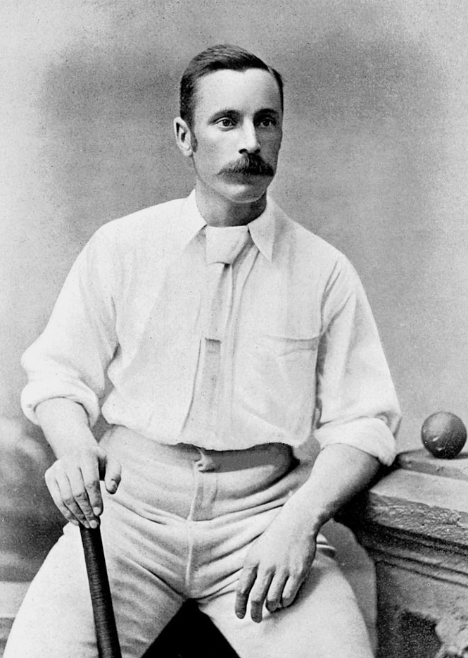 Sport, Cricket, Circa 1895, Thomas Arthur Wardall, Yorkshire, (1884-1894)